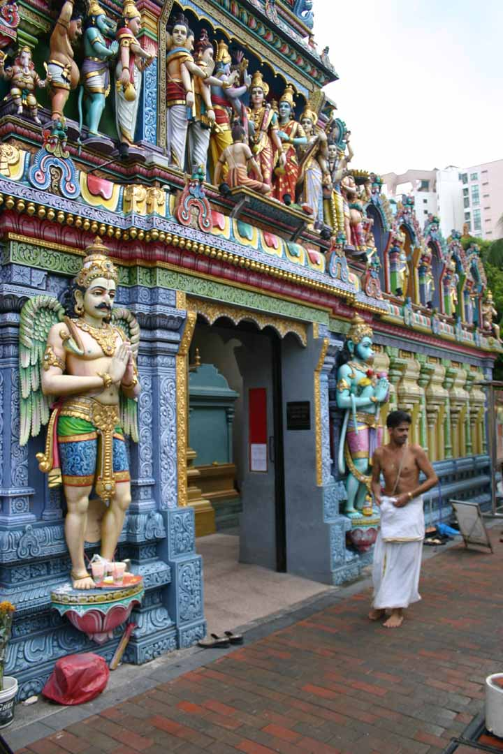 Sri Krishnan Temple, Singapore.